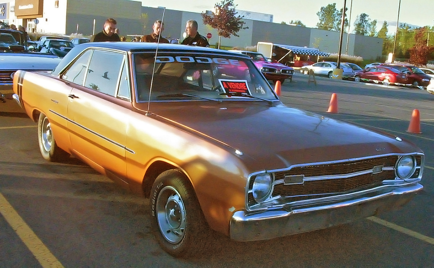 1969 Dodge Dart photographed in Laval, Quebec, Canada at Les chauds vendredis.